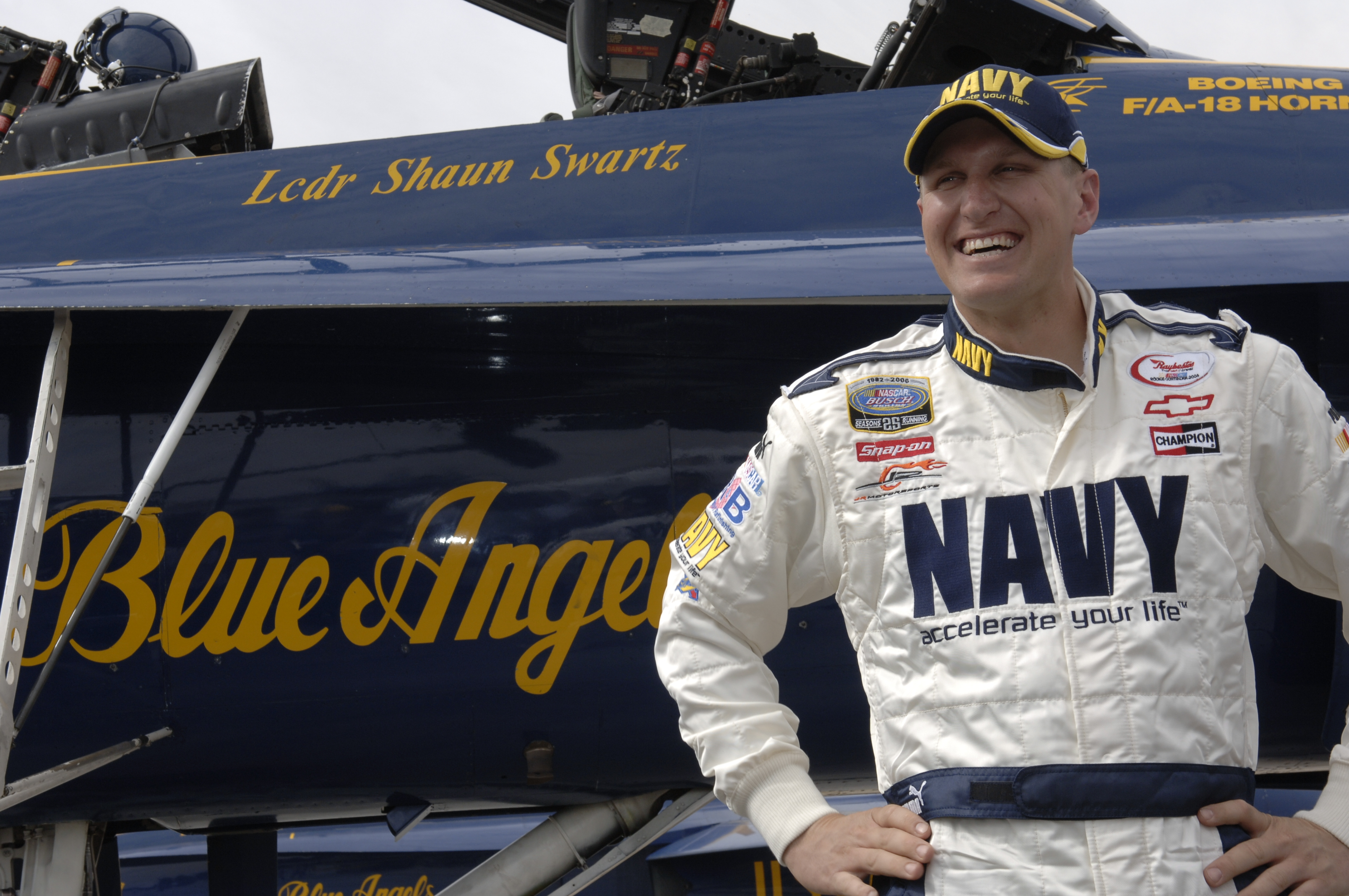 Description: JR Motorsports and Navy team owner Dale Earnhardt Jr., Mark McFarland driver of the NASCAR Busch No. 88 ÒNavy - Accelerate Your lifeÓ Chevrolet Monte Carlo and Fox Sports racing analyst Jeff Hammond receive VIP rides with the U.S. Navy flight demonstration team ÒBlue Angels." Official U.S. Navy photo by PhotographerÕs Mate Third Class Joseph Buliavac. File Size: 3050 Height: 2136 Horizontal Resolution: 200 Keywords: 060227-N-3659B-010.JPG,Blue_Angels